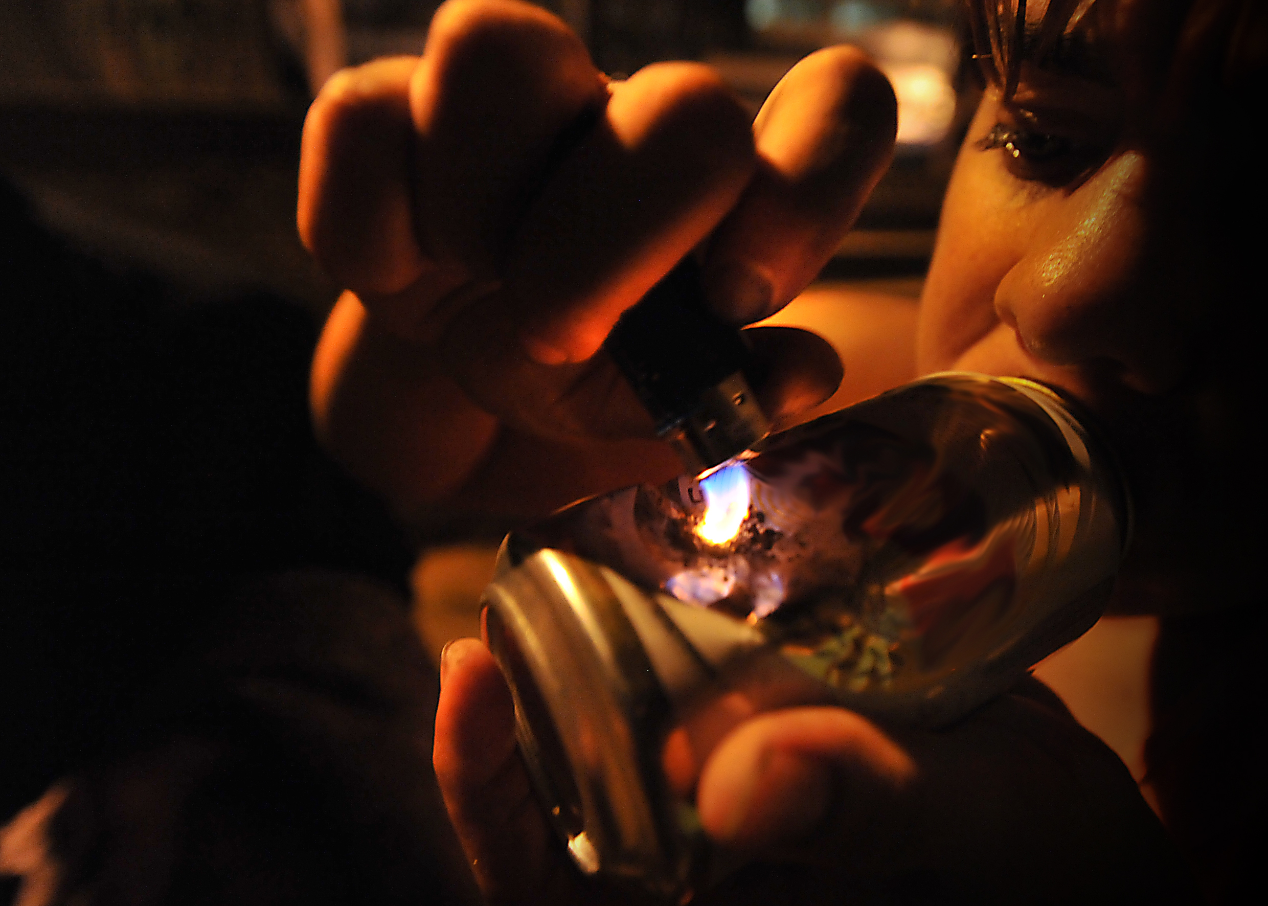 Brasília - If you don't have a pipe, do it with a can.